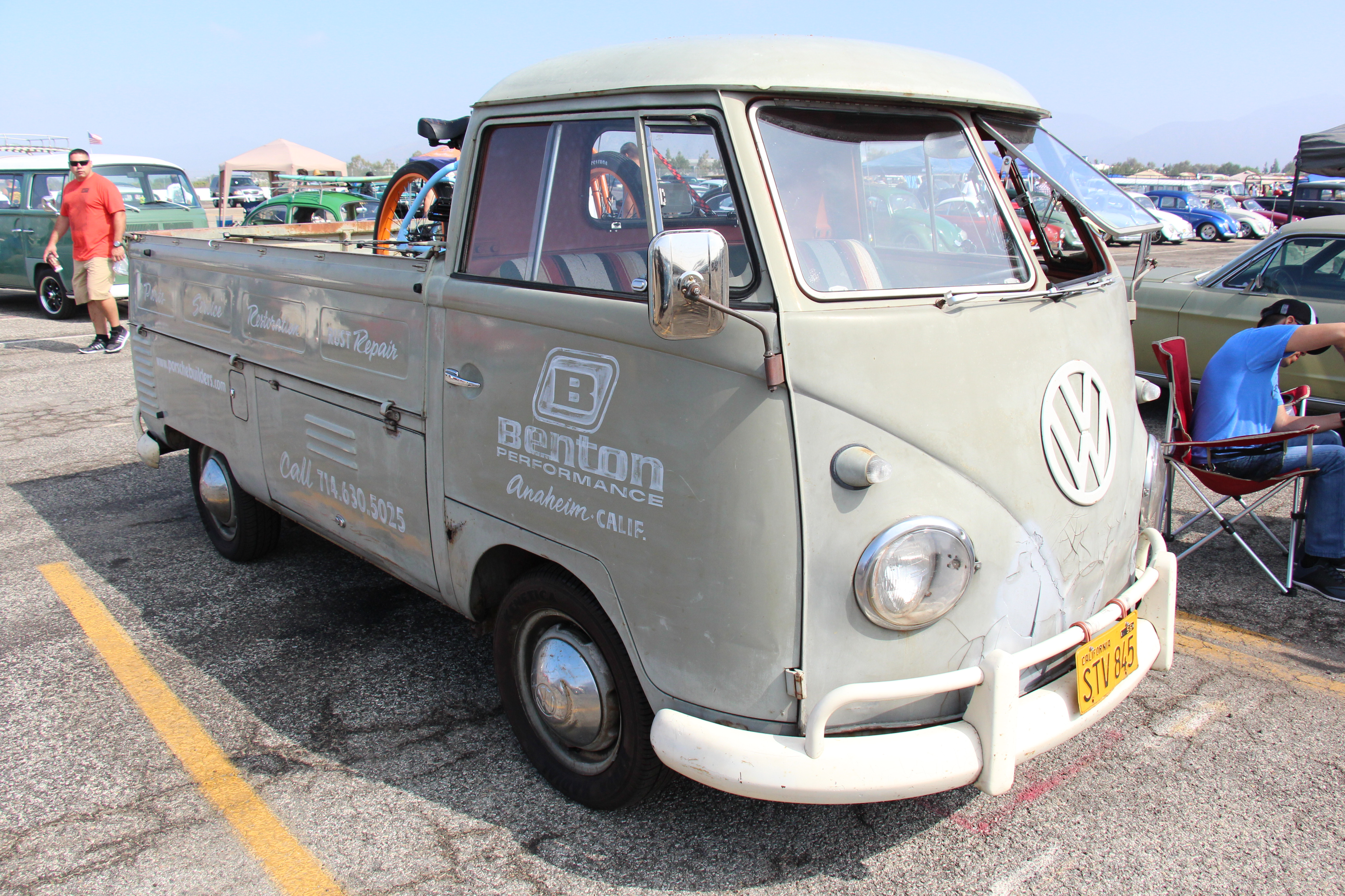 Introduced in 1949, known as the Type 2 (the Beetle was the Type 1) 1949; only the Panel Van (no side windows or seats) and Kombi (some seats and some side windows) were available. 1300cc 1950; Microbus introduced (full side windows) 1131c 1951; Deluxe Microbus (samba) introduced with skylight windows and a canvas sliding roof, also Westfalia Camper and Ambulance 1952; Pickup available, Deluxe got chrome trim 1956; new body; roof extended over windscreen, 9 engine air louvres (was 8), bullet indicators replace semiphores on export models, smaller engine cover 1300cc 1957; larger tail lights 1961; Large oval indicators replace bullets 1963; air engine louvres now pressed inwards, push button door handles 1500cc 1964; Deluxe models no longer have rear qtr windows 1965; front indicators now amber 1968 The new Series II Bay introduced